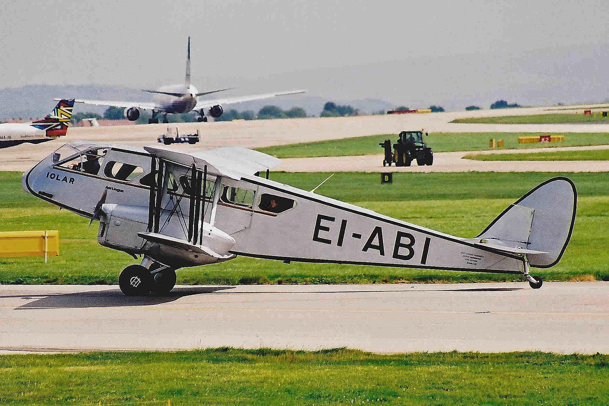 Aer Lingus Historic Flight.